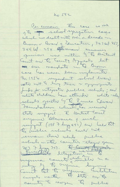 The first page of Justice William. O. Douglas' draft of the per curiam decision in Griffin v. County School Board of Prince Edward County, 377 U.S. 218 (1964). Prince Edward County, located in the U.S. state of Virginia, had refused to permit its public schools to be racially integrated in 1959. It closed its schools instead. African American parents of schoolchildren in the country sued, arguing this violated their rights to due process and equal protection of the laws under the 14th Amendment to the U.S. Constitution. The Supreme Court unanimously agreed, and ordered the schools opened in May 1964.